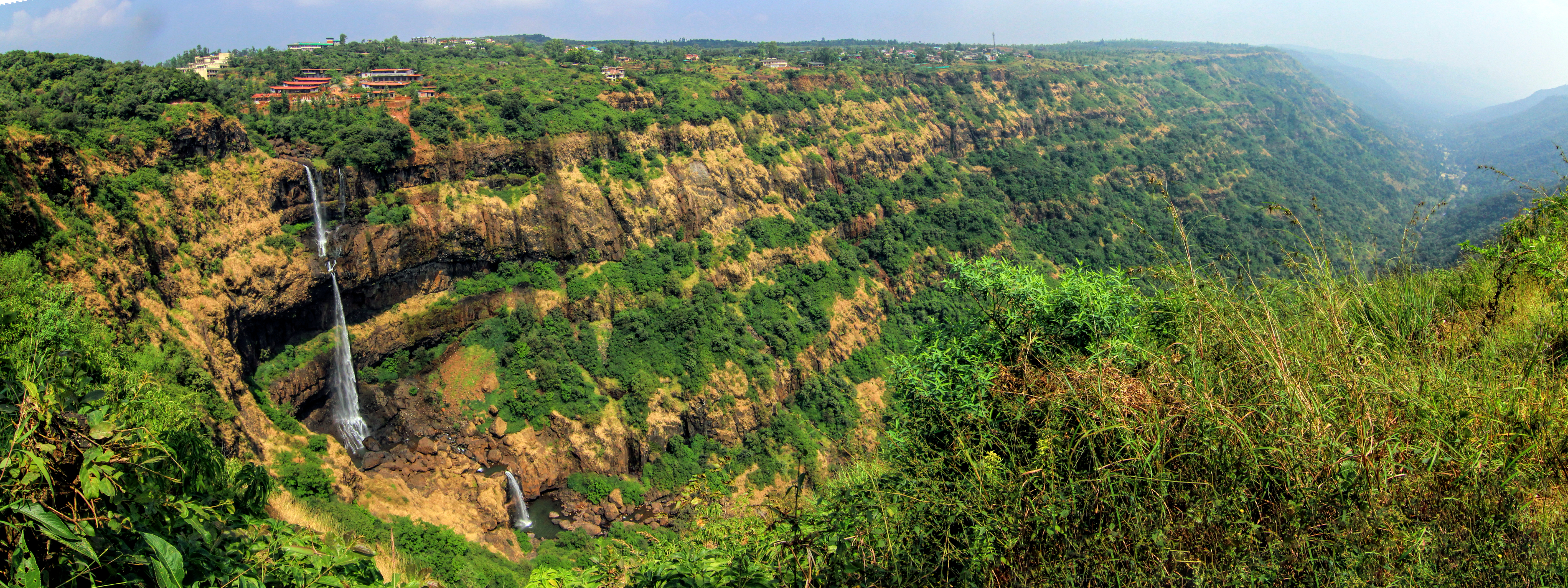 Panoramic view of Lingmala waterfalls